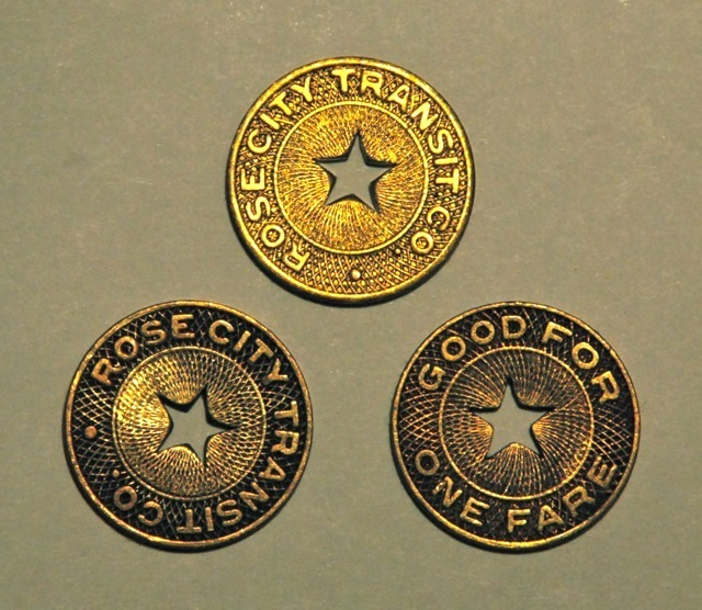 Three fare tokens of the Rose City Transit Company, which operated the mass transit system in Portland, Oregon, from 1956 to 1969. These three tokens are all the same design, with "Rose City Transit Co." on one side and "Good for One Fare" on the other side. One is in almost-new condition, while the other two are heavily toned from multiple reuse.